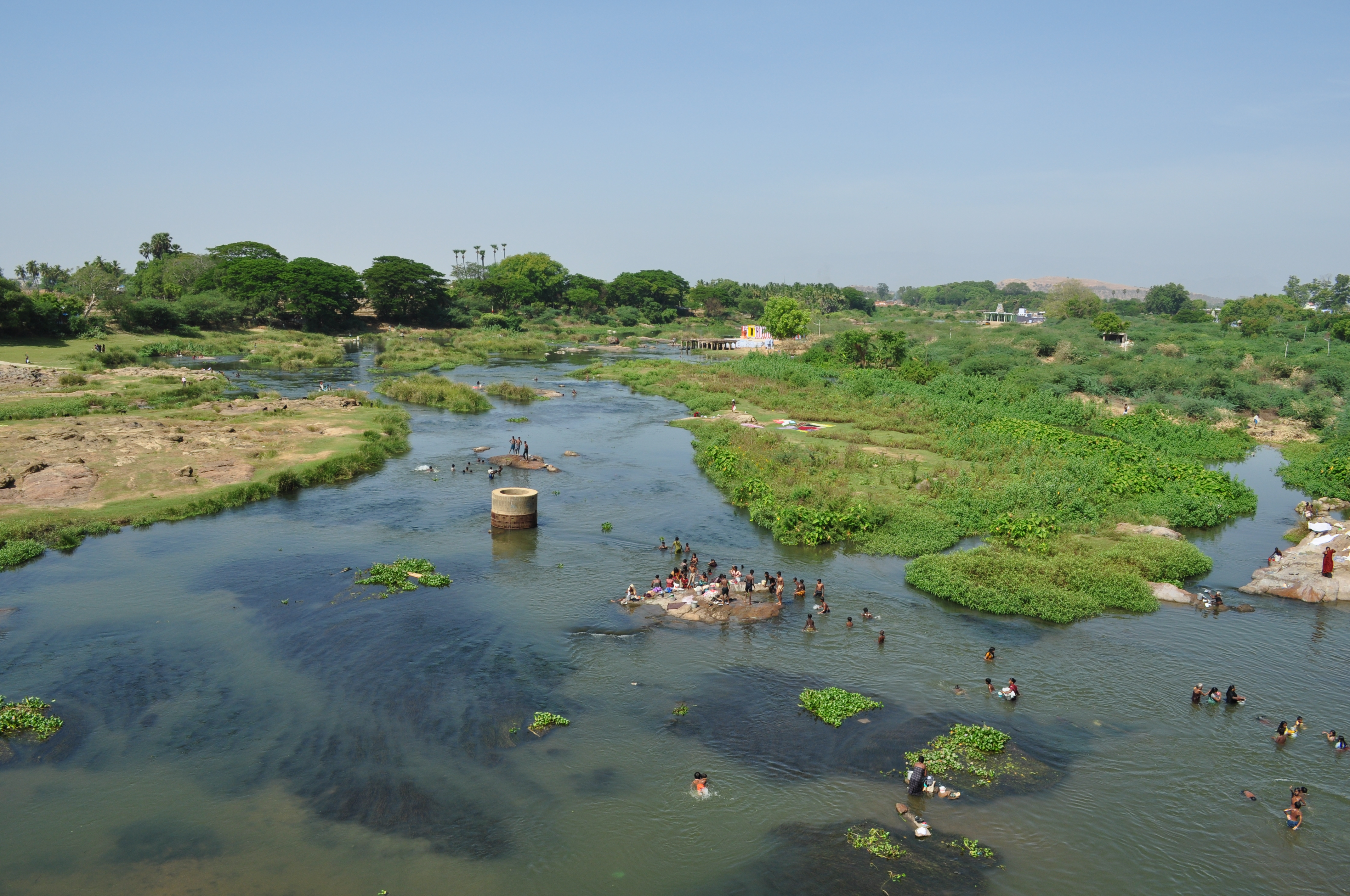 Thamirabarani River flowing across tirunelveli